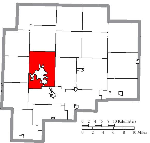 Map of the municipal and township boundaries of Guernsey County, Ohio, United States, as of the 2000 census, with the location of Cambridge Township highlighted. Township borders are shown only in unincorporated areas in order to differentiate incorporated and unincorporated areas more clearly.